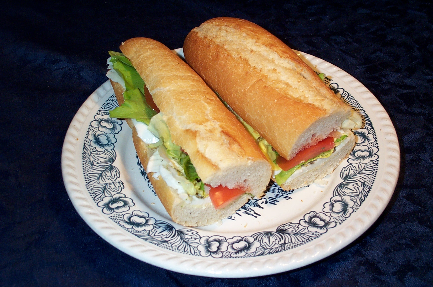 Baguette icons The baguettes are back! More baguette insanity.